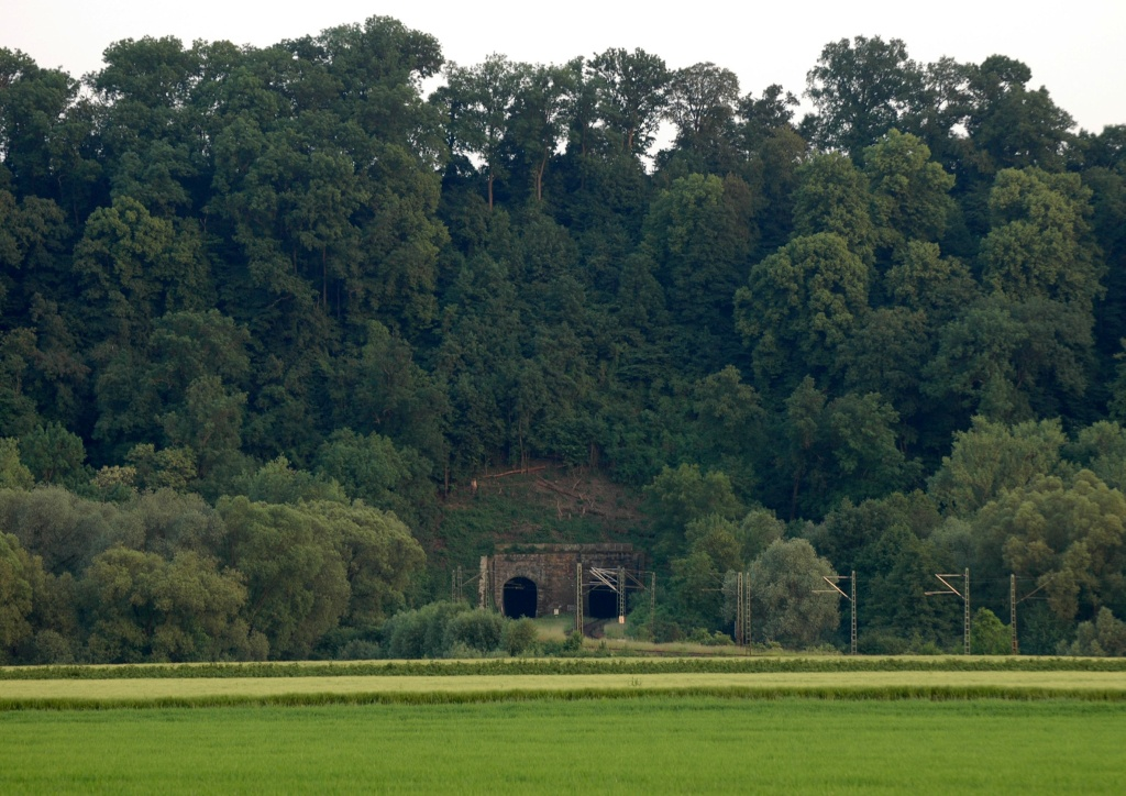 Kirchheim tunnel as seen from the north.